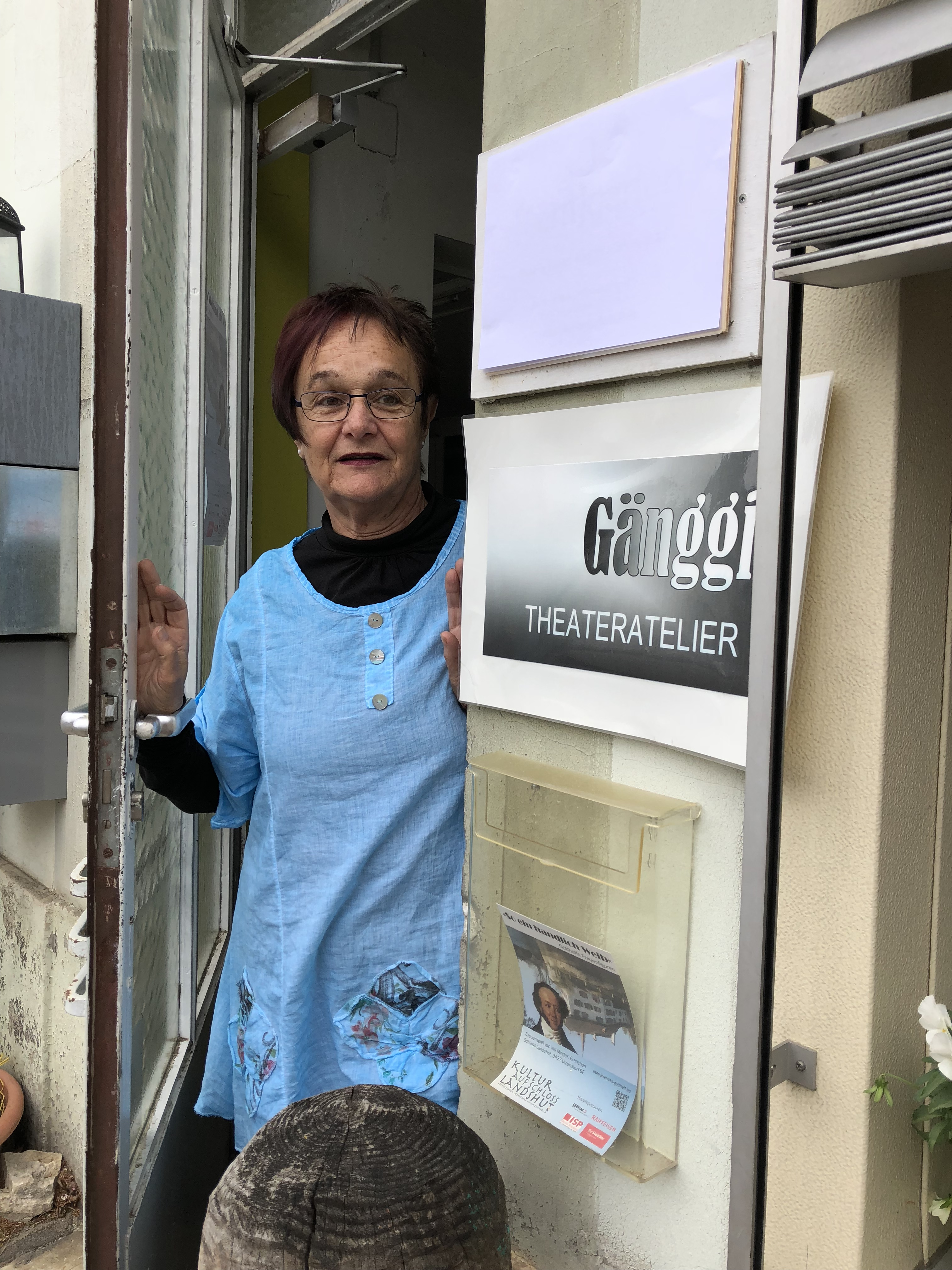 Portrait of Swiss writer Iris Minder